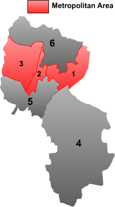 Map of Yinchuan in Ningxia province